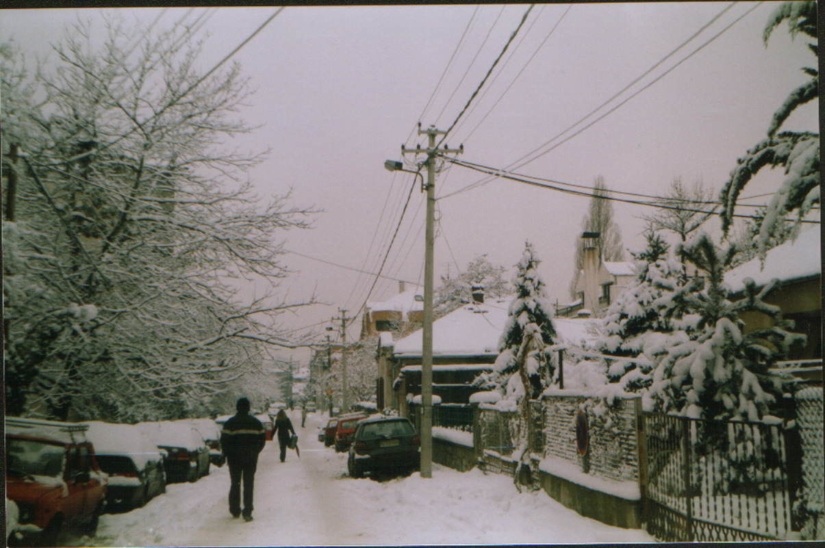 Photo of Brace Kovac street in Dusanovac, in winter. Photo by Dragan Markovic